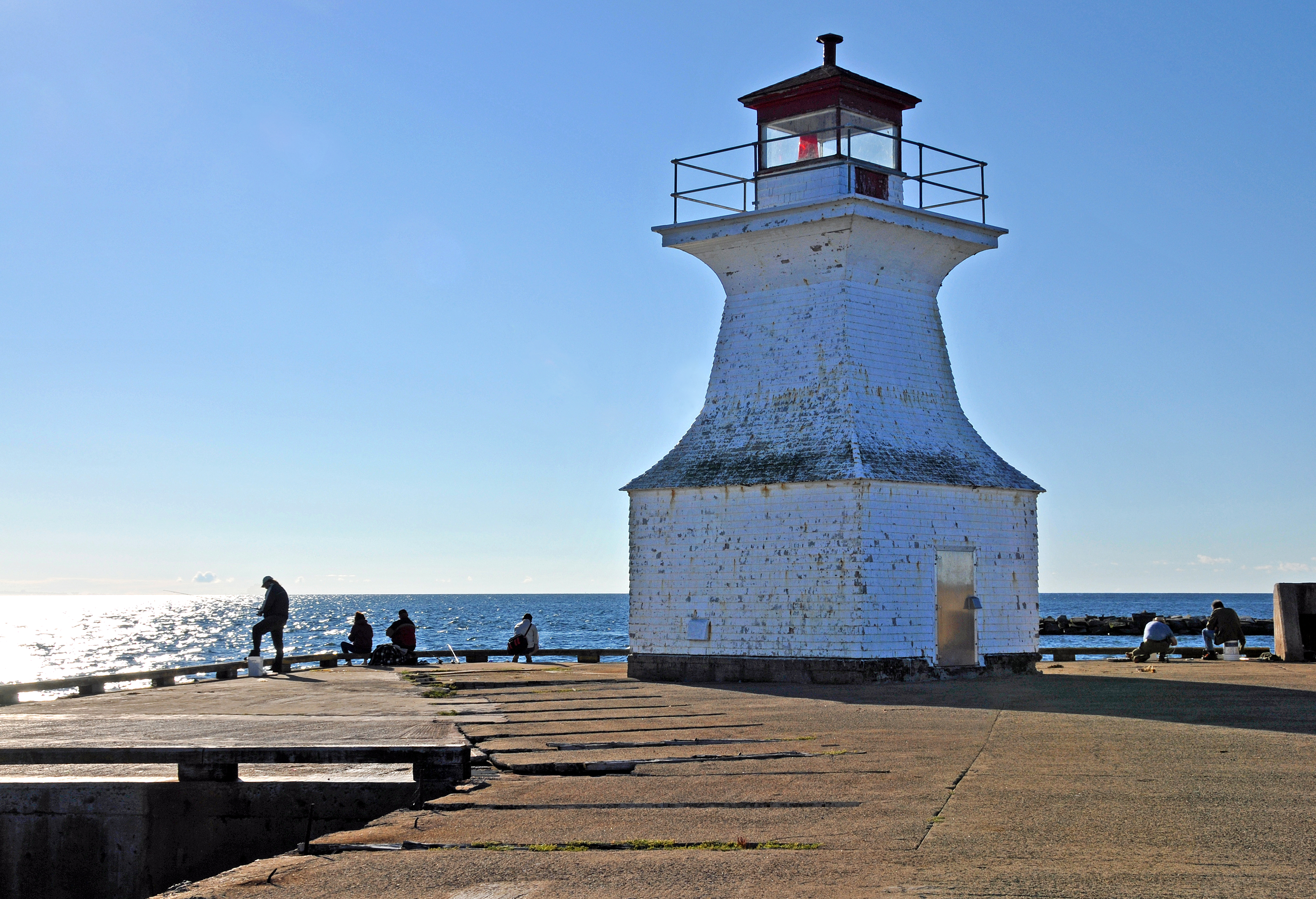 Cape Tormentine Outer Wharf. The present front light, a short pepper-pot style tower, was put in place in the 1940s. Cape Tormentine is the easternmost point in New Brunswick. After the completion of the Federation Bridge in 1997, the Cape Tormentine – Borden Ferry was discontinued, and with it, so were the Cape Tormentine Pier Range Lights. At the request of local fishermen, who still use the harbour, the front light was reactivated in 1998. The Canadian Coast Guard maintains the front light in good condition. It is now declared surplus by the Canadian Government. Link to the surplus list